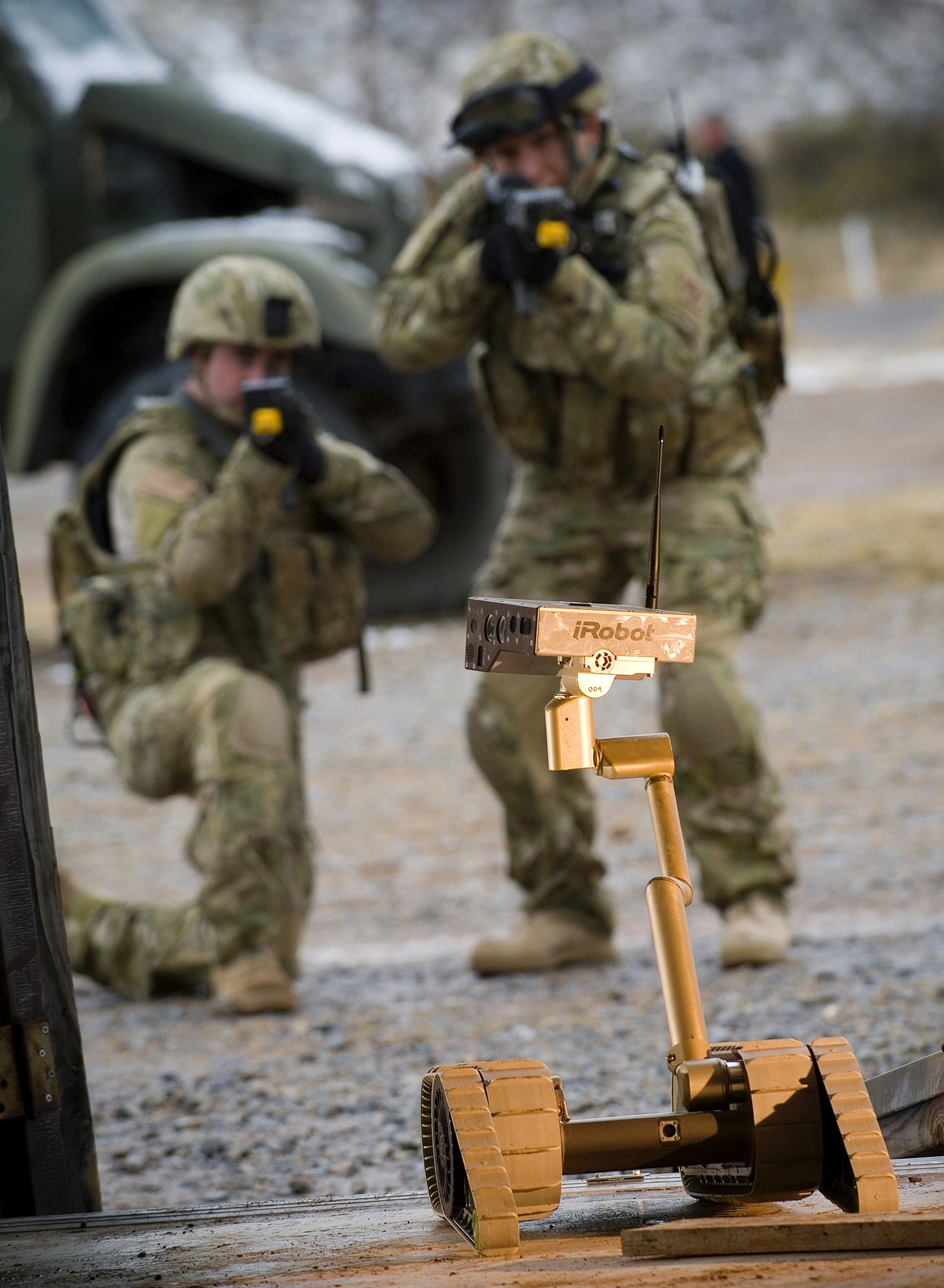 FCS Demonstration May 07, 2007 Future Combat Systems like the Small Unmanned Ground Vehicle (SUGV), shown here featured in Experiment 1.1, was displayed at the Pentagon, Tuesday, May 8, 2007.